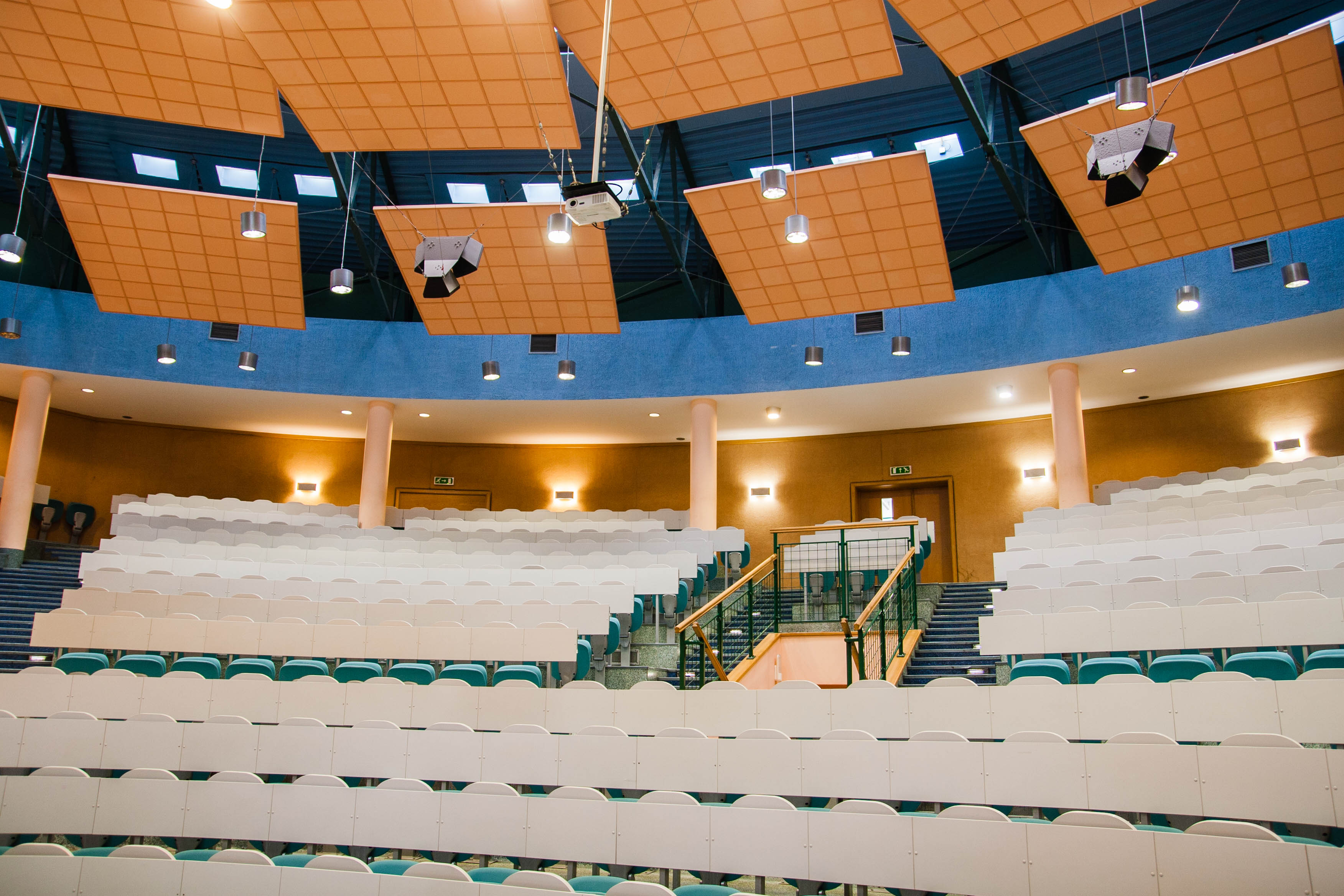 Aula wykładowa - UŁa